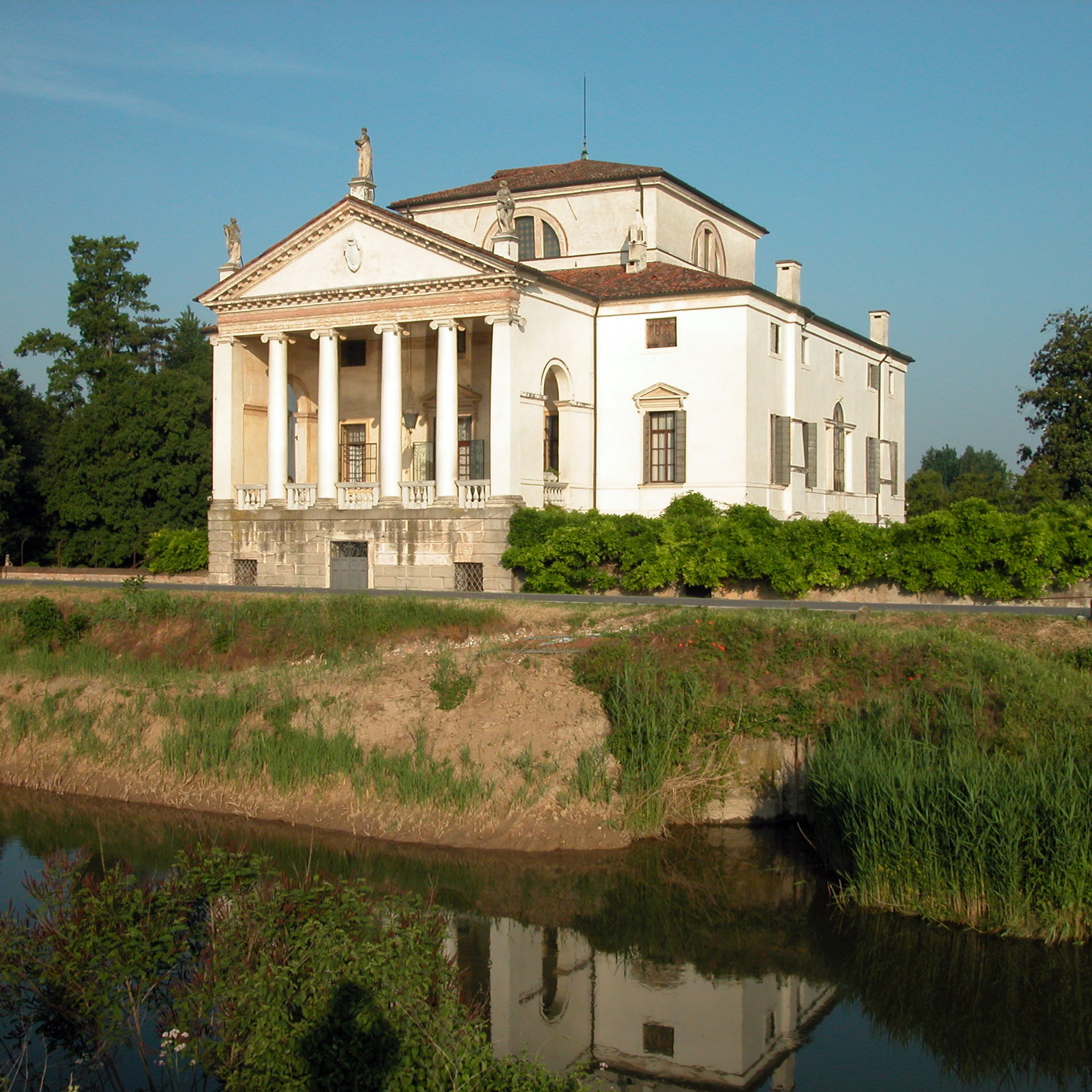 Villa Molin, Padua